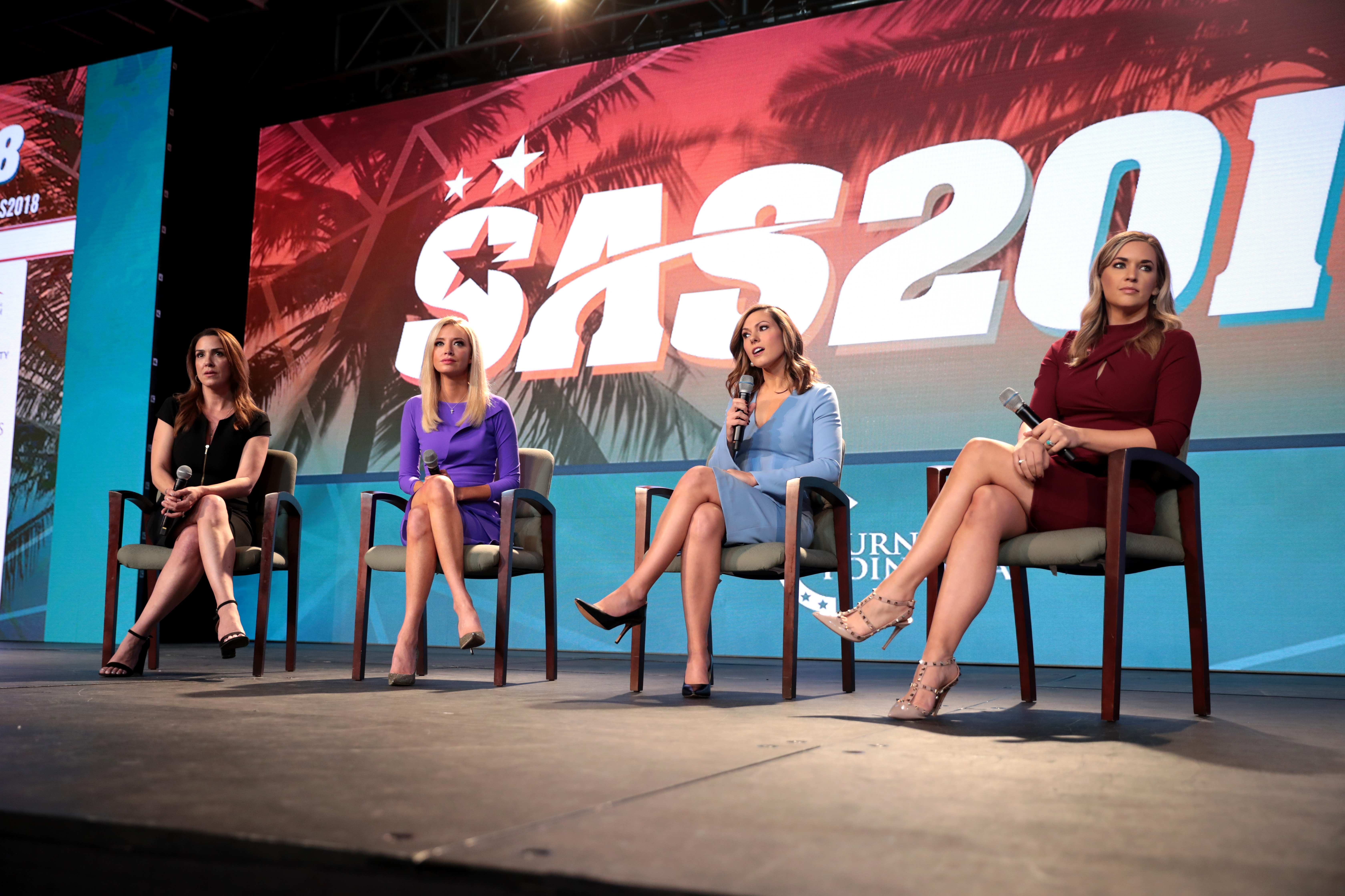 Sara A. Carter, Kayleigh McEnany, Lisa Boothe and Katie Pavlich speaking with attendees at the 2018 Student Action Summit hosted by Turning Point USA at the Palm Beach County Convention Center in West Palm Beach, Florida.